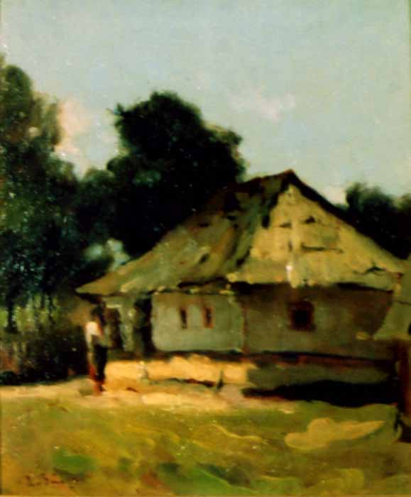 Aurel Băeşu - The house from Humuleşti - Cotroceni Museum - Bucharest